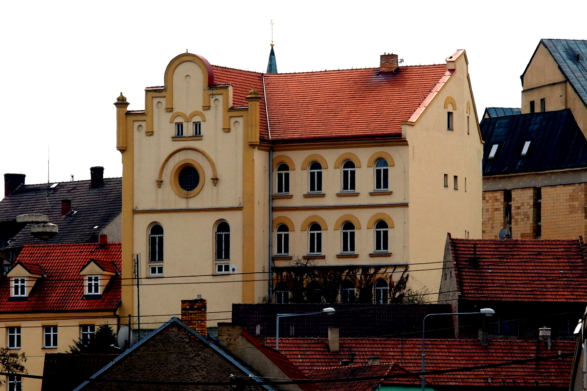 Former Synagogue, 149/9 Fričova str., Slaný, Kladno District. Built in Moorish style in the year 1865. View from Lázeňská street.